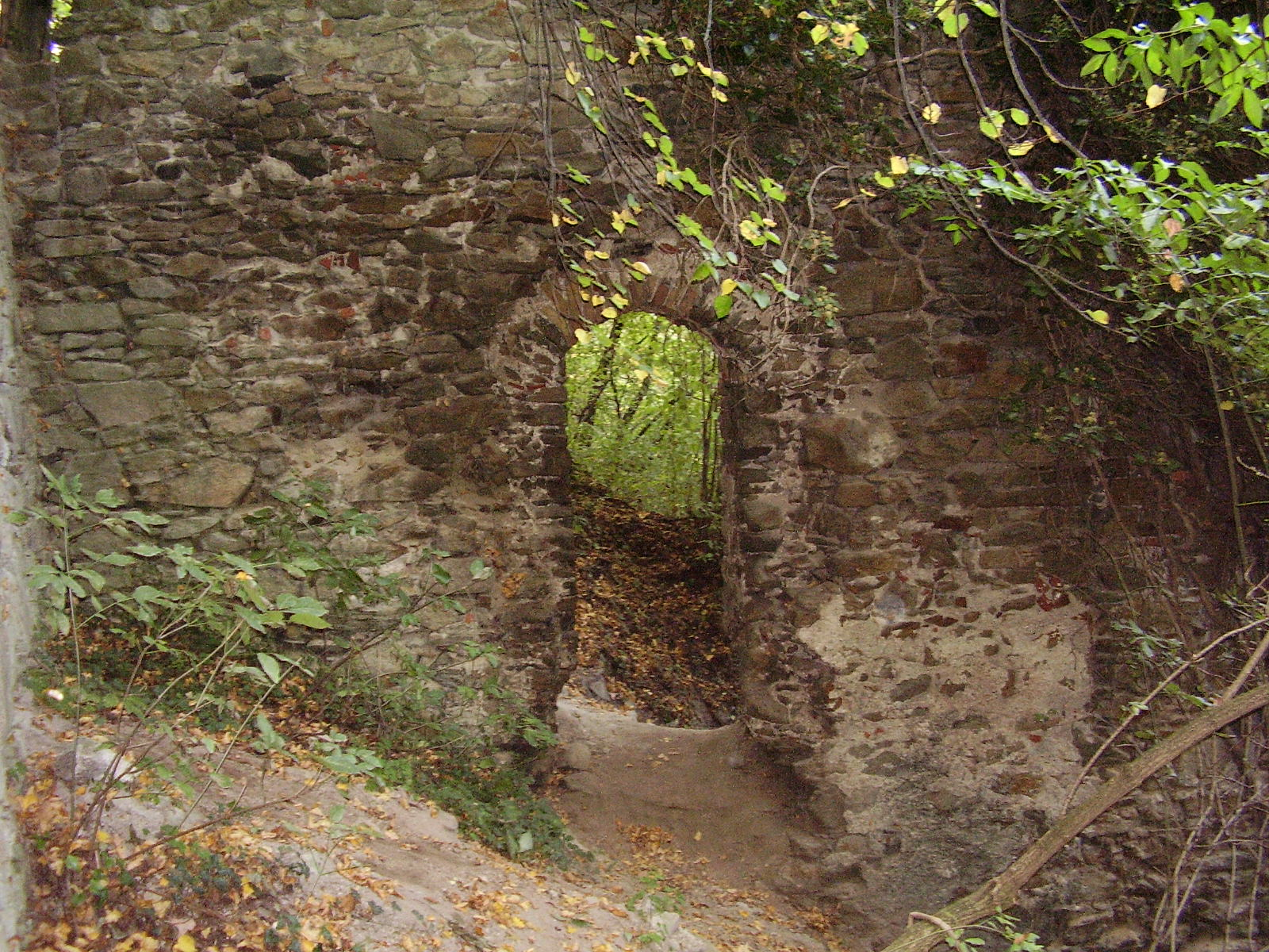 Slovakia, ruins of the Biely Kamen castle This medium shows the protected monument with the number 107-431/1 (other) in the Slovak Republic.